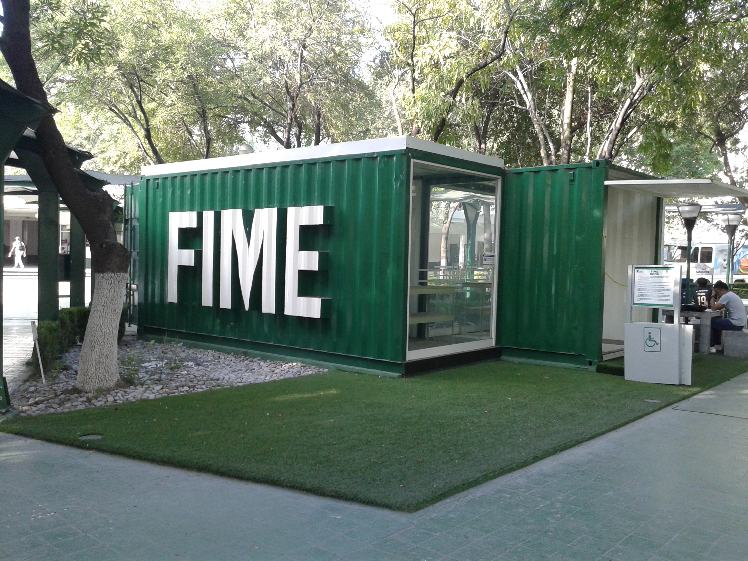 FIME Book from the Facultad de Ingeniería Mecánica y Eléctrica of the Universidad Autónoma de Nuevo León.